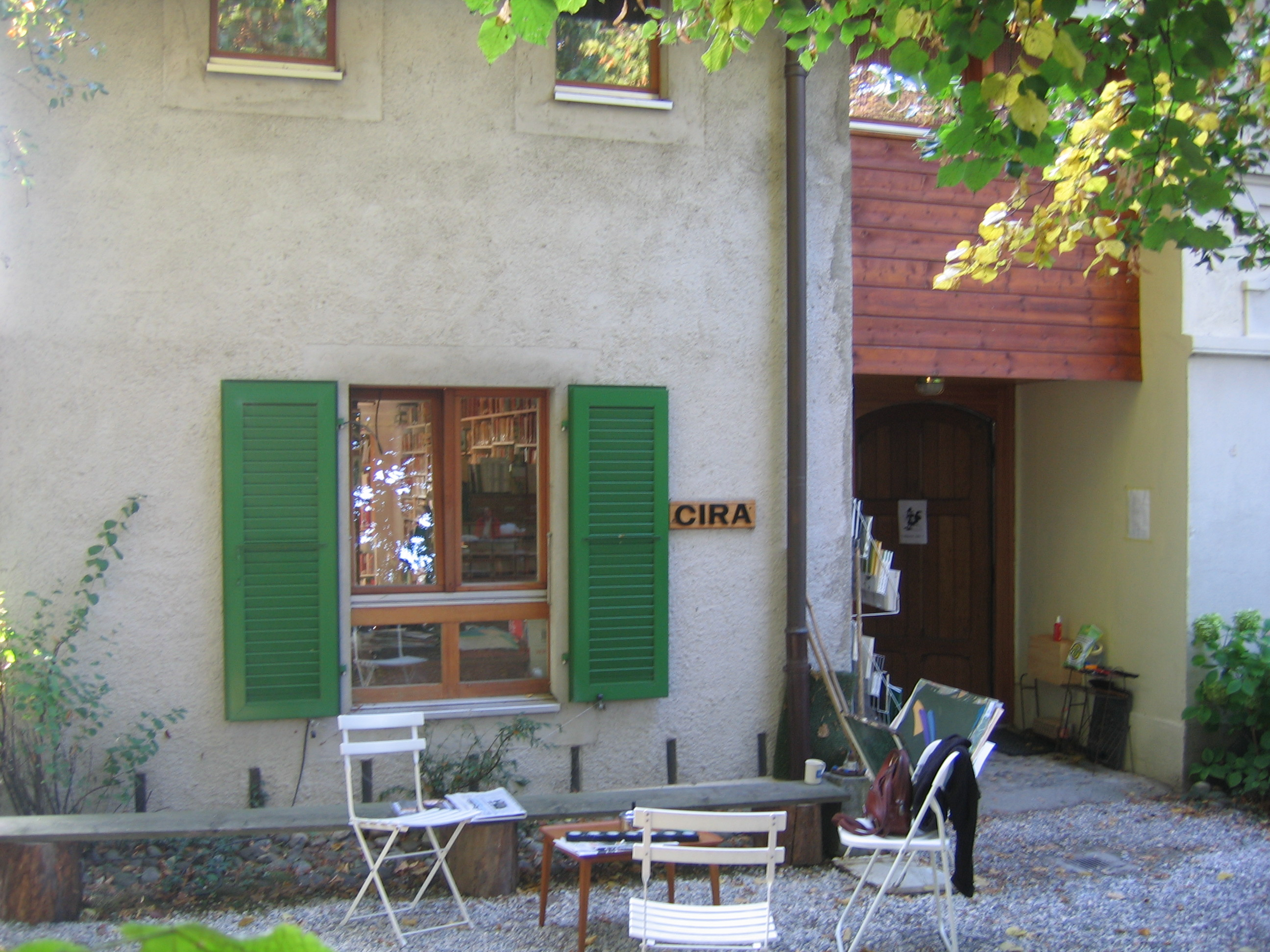 Front of CIRA